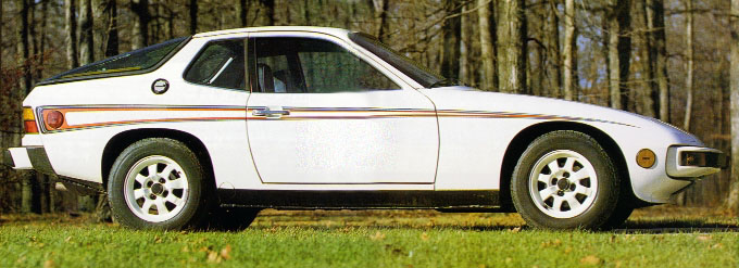 Porsche 924: World championship edition from 1977